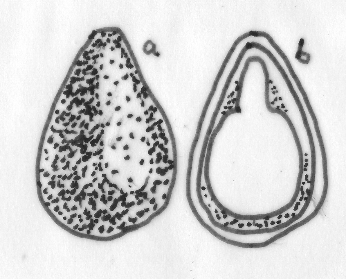 Nettle. Fruit, entire and cut vertically